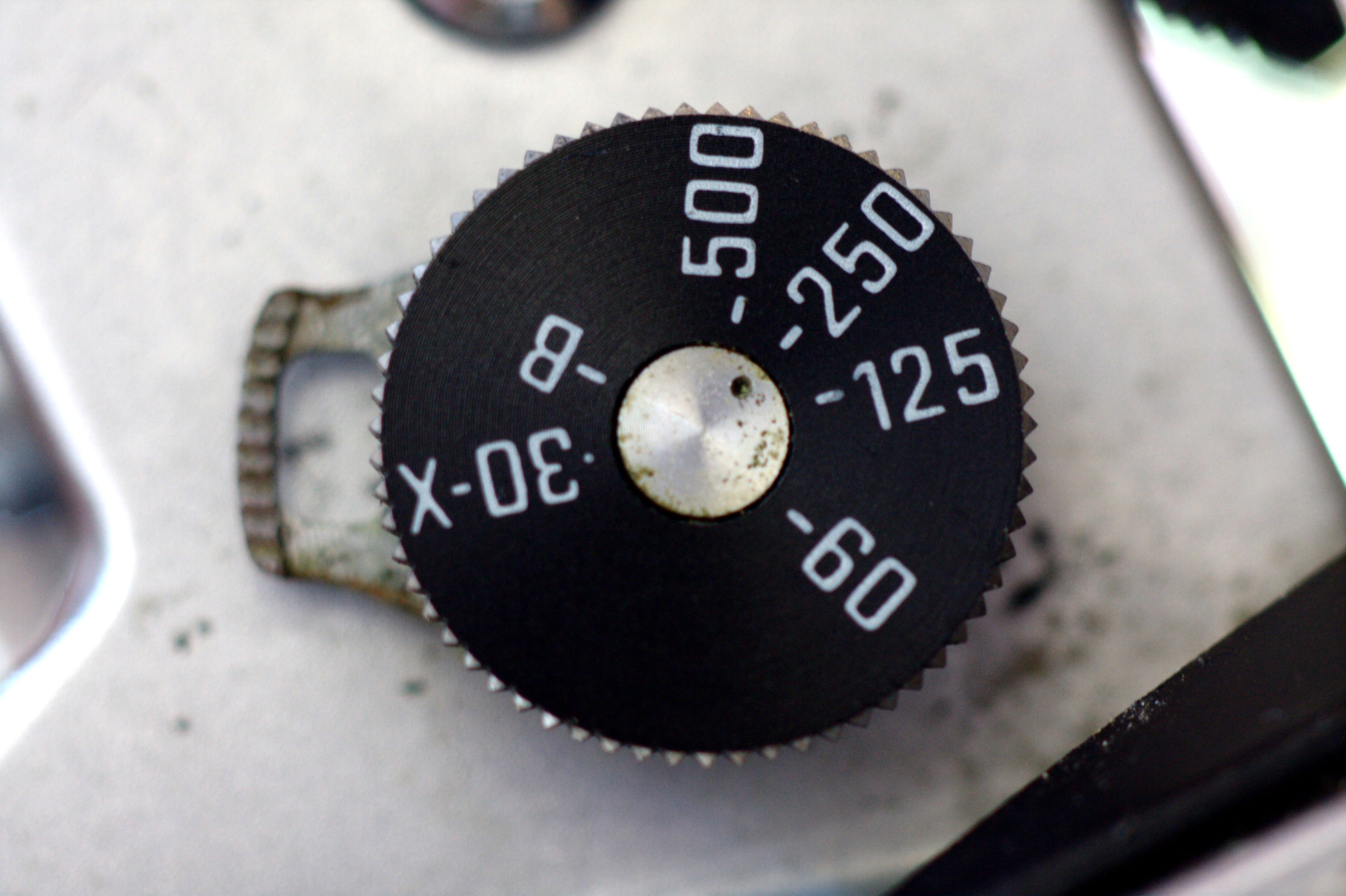 Shutter speed knob. The shutter worked ok at 1/500 and usually worked at 1/250. Set at 1/125 or below it stuck open about 50% of the time.